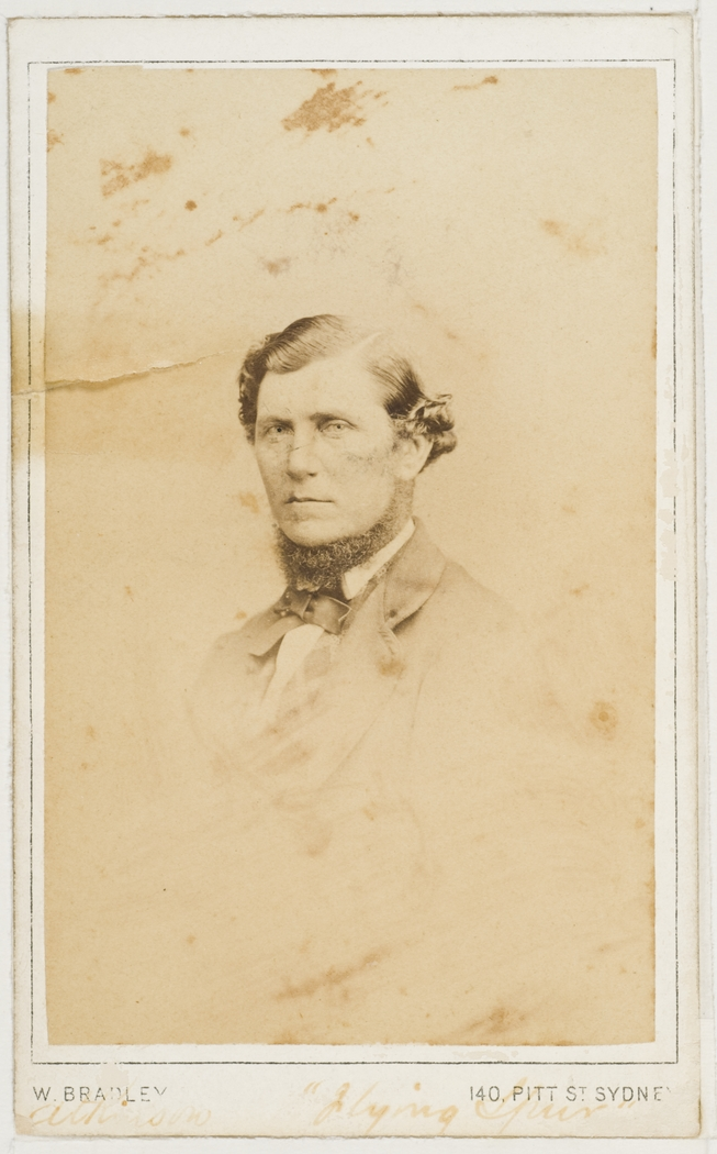 William B. Atkinson, Captain of the ship "Flying Spur", ca. 1870 / photograph by William Bradley. FL3262015